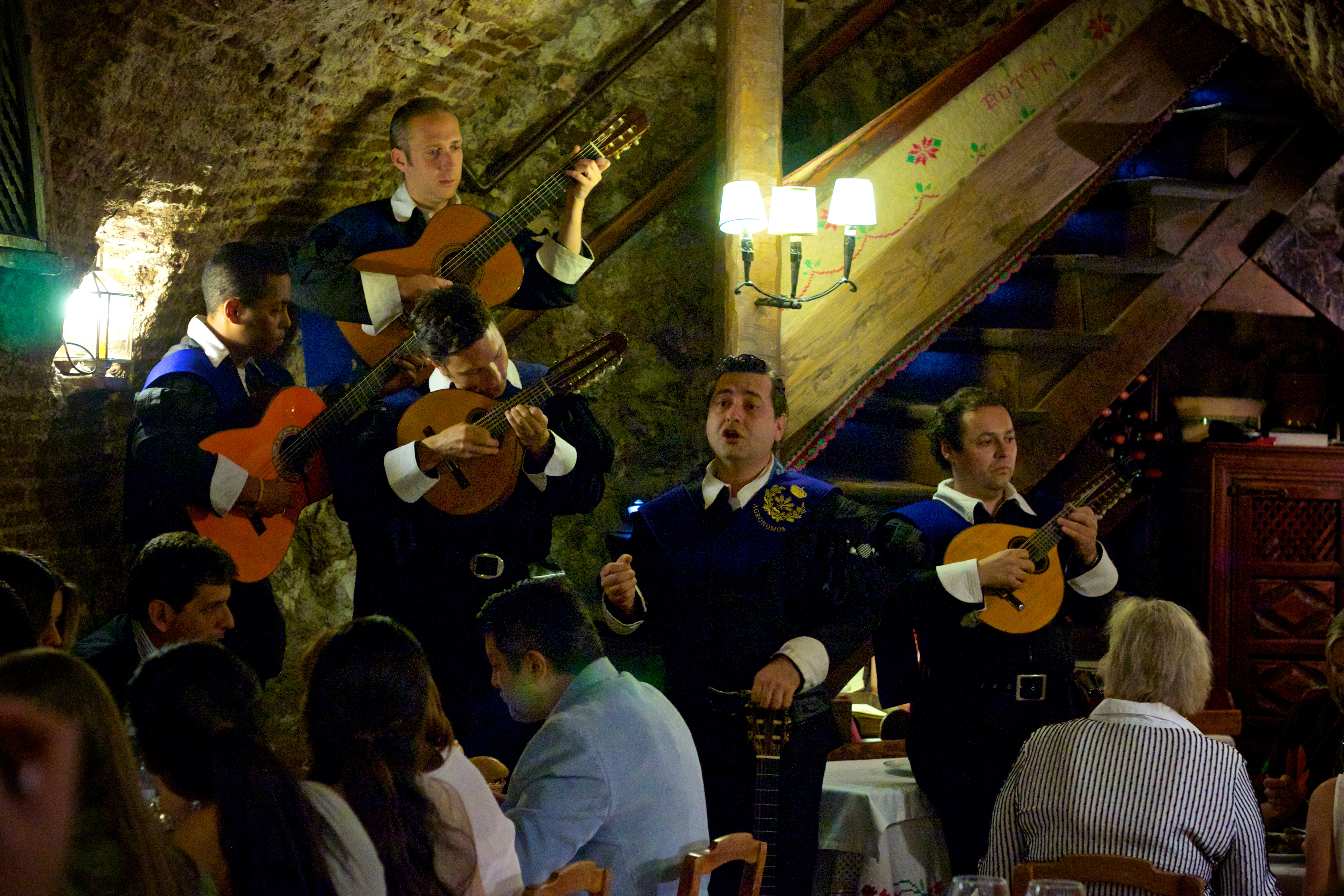 Live serenade at Sobrino de Botín (Calle de los Cuchilleros 17, 28005 Madrid, Spain). Founded in 1725, it is the oldest restaurant still running in Spain, and one of the oldest in the world. The artist Francisco de Goya worked there as a waiter while waiting to get accepted into the Royal Academy of Fine Arts. The restaurant is also mentioned in the book Fortunata y Jacinta by Benito Pérez Galdós (published 1886-1887). The restaurant was founded by a French man Jean Botin and his spouse, and was originally called Casa Botín. It was inherited by a nephew of theirs called Candido Remis, thus explaining the change of name to Sobrino de Botín, which survives to this day. The Sobrino and its speciality of cochinillo asado (roast suckling pig) are mentioned in the closing pages of Ernest Hemingway's novel, The Sun Also Rises. Its other signature dish is sopa de ajo (an egg, poached in chicken broth, and laced with sherry and garlic): a favourite pick-me-up with Madrileño revellers.